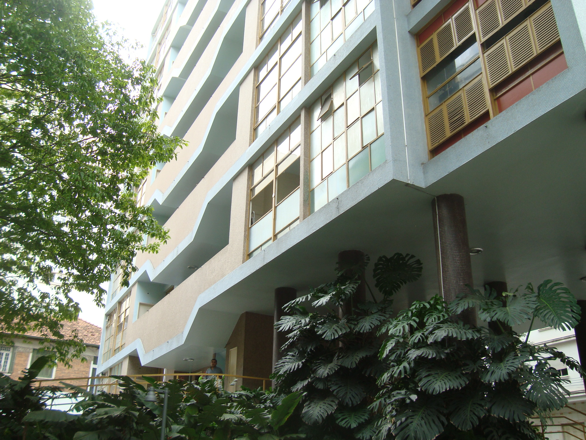 Fundos de um dos prédio do Edifício Louveira.